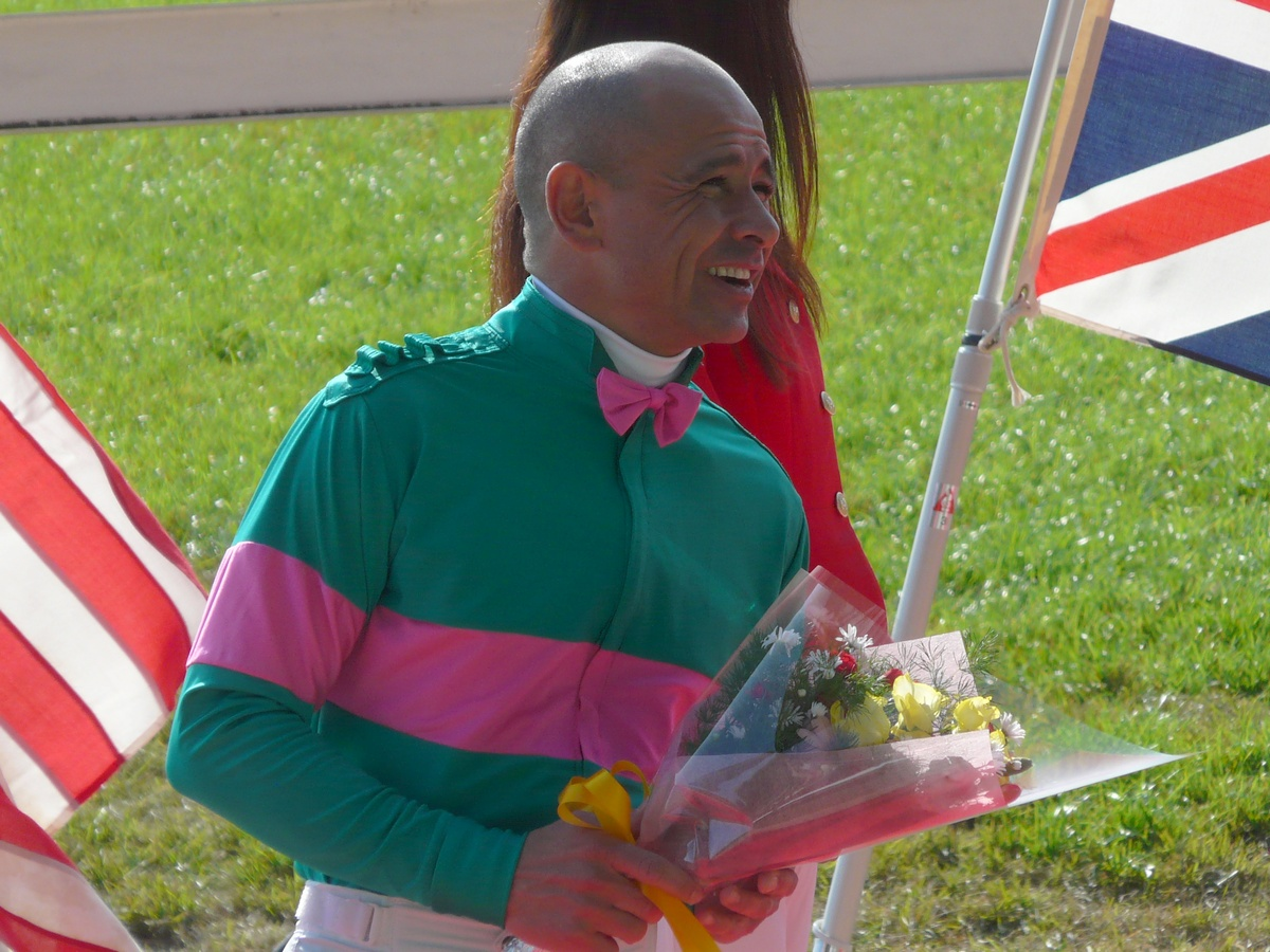 Michael-Smith20101127